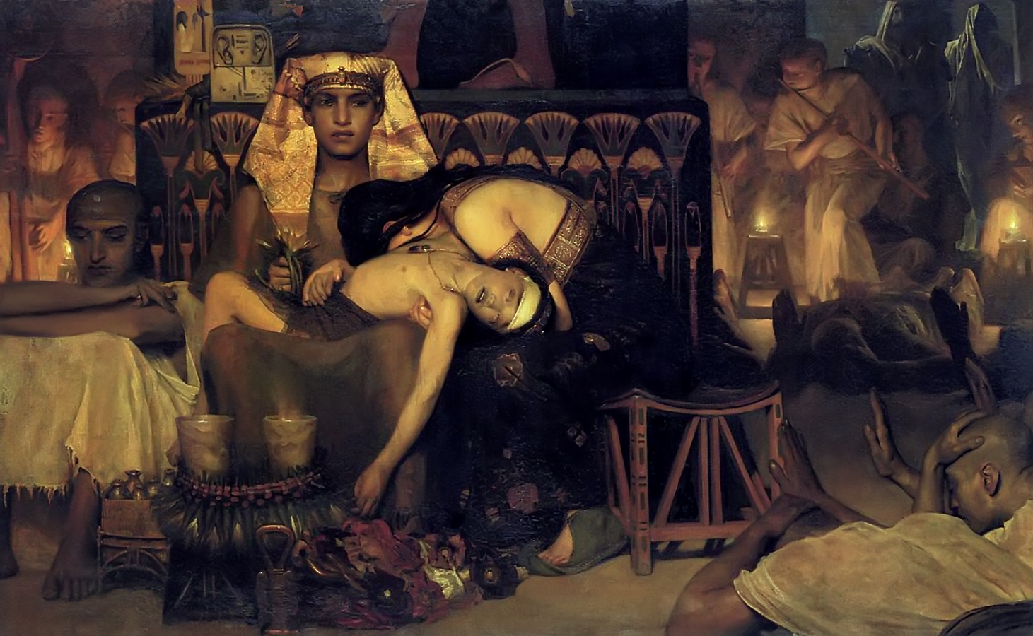 Death of the Pharaoh's Firstborn Son (Ex. 12:29).